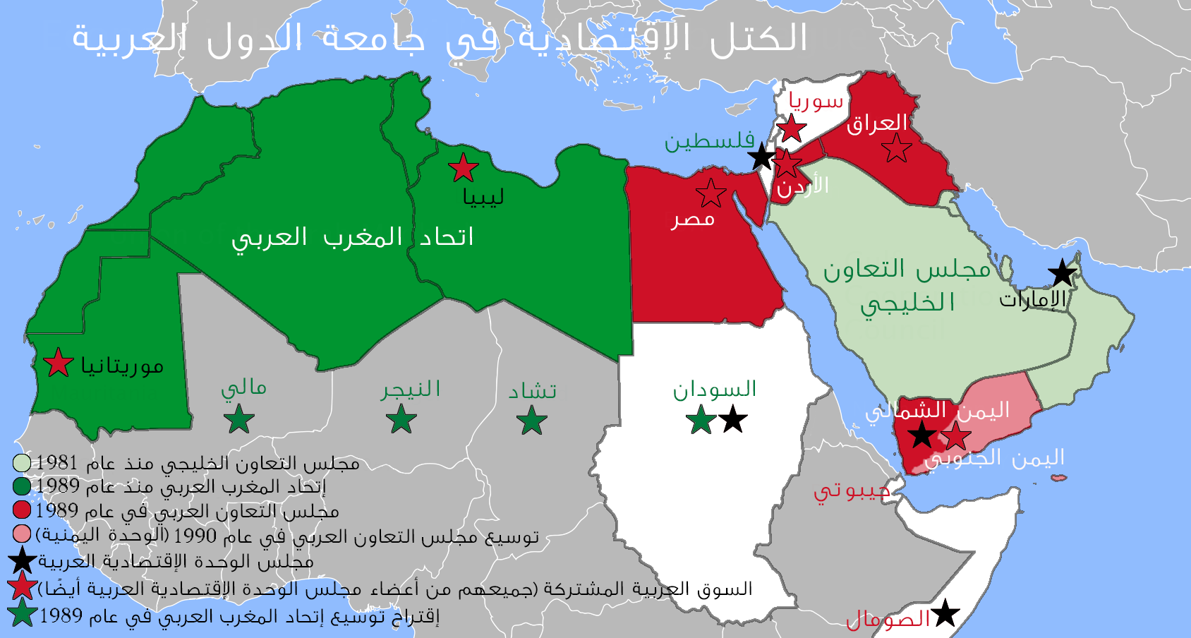 Economic Cooperation with the Arab League